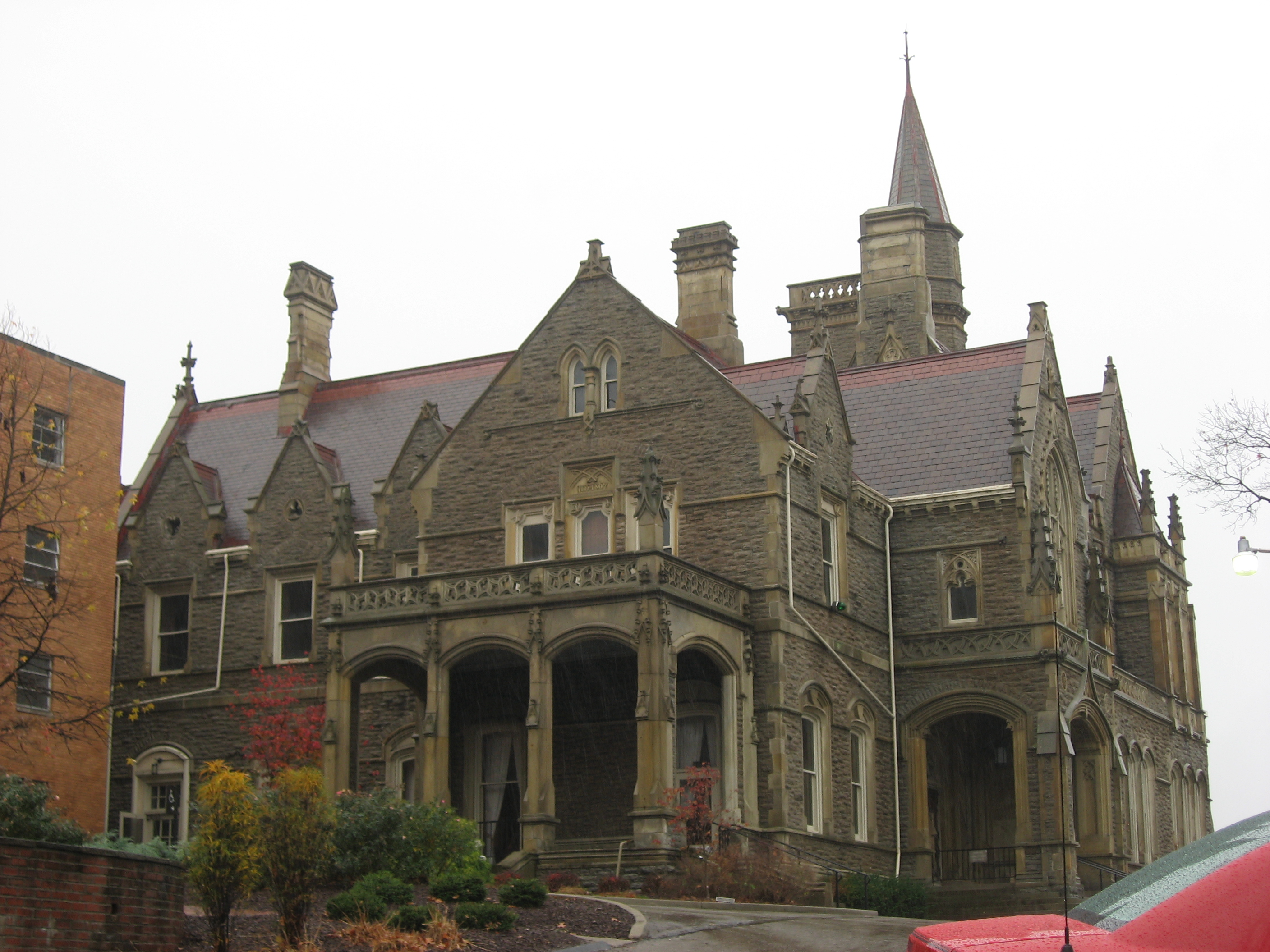 Front of the main building at Scarlet Oaks, a retirement village located at 440 Lafayette Avenue in the Clifton neighborhood of Cincinnati, Ohio, United States. Built in 1867, it is listed on the National Register of Historic Places.